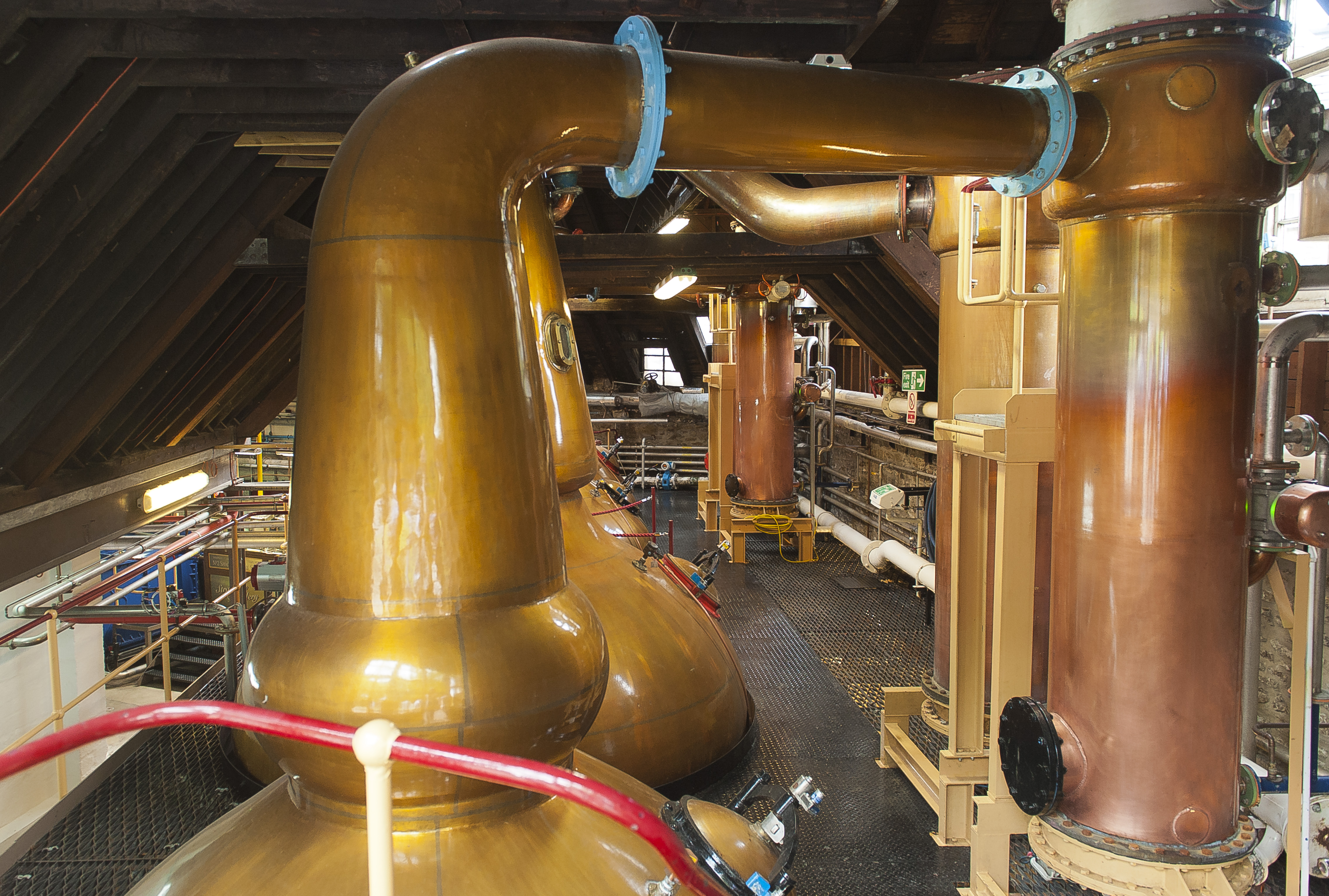 Strathisla distillery, Keith, Scotland